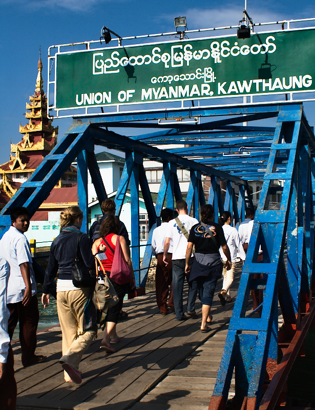 Entrance to Burmese border Kawthaung, Myanmar